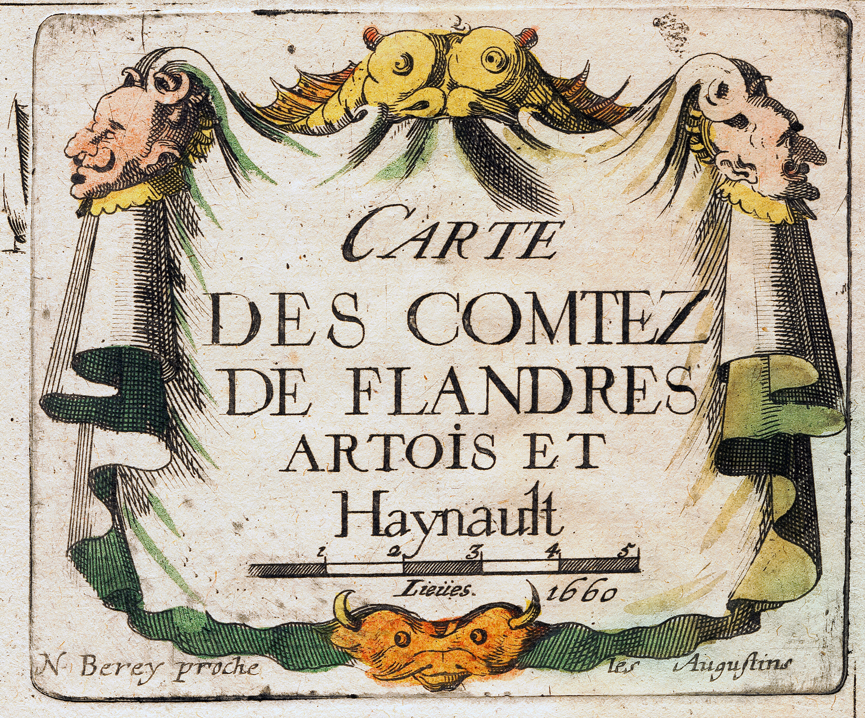 Map of Flanders, Artois and Hainaut - detail